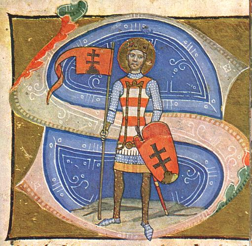 Miniature of St. Istvan, first king of Hungary